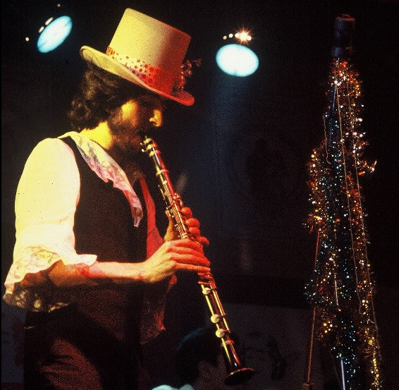 Fernando Luna, leader of the Romantica Banda Local, playing the clarinet during a concert.